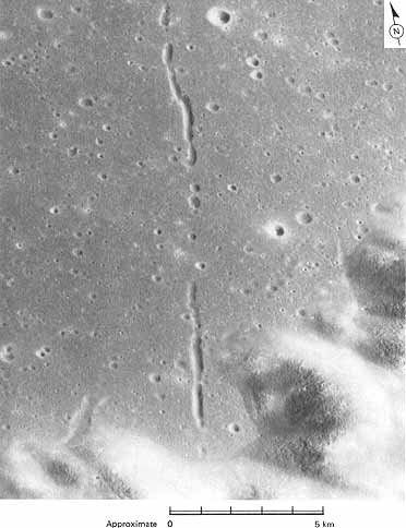 Part of Le Monnier's southern wall fills the lower part of the picture. A conspicuous chain of elongate depressions has formed in the lava-filled floor of the crater. The chain trends 22 km northward and its pattern is quite surely controlled by an underlying fracture system.